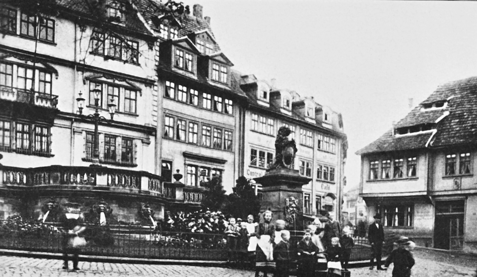 Gotha, Hauptmarkt, Pferdetränke and Löwenbrunnen (on the left)